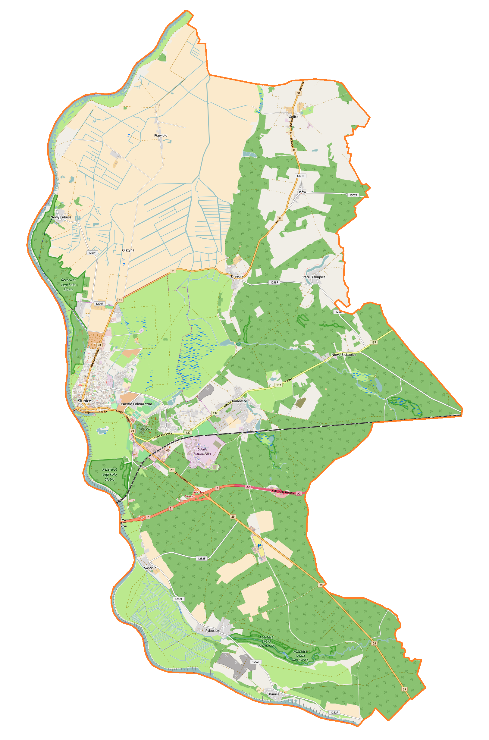 Location map